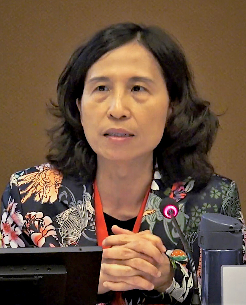 HS Secretary Alex Azar joined top health officials and global health partners at a World Health Assembly side event to look at ways to boost public trust in vaccines as our most reliable front line defense against disease. Speakers at the event included Dr. Theresa Tam, Chief Public Health Officer of Canada